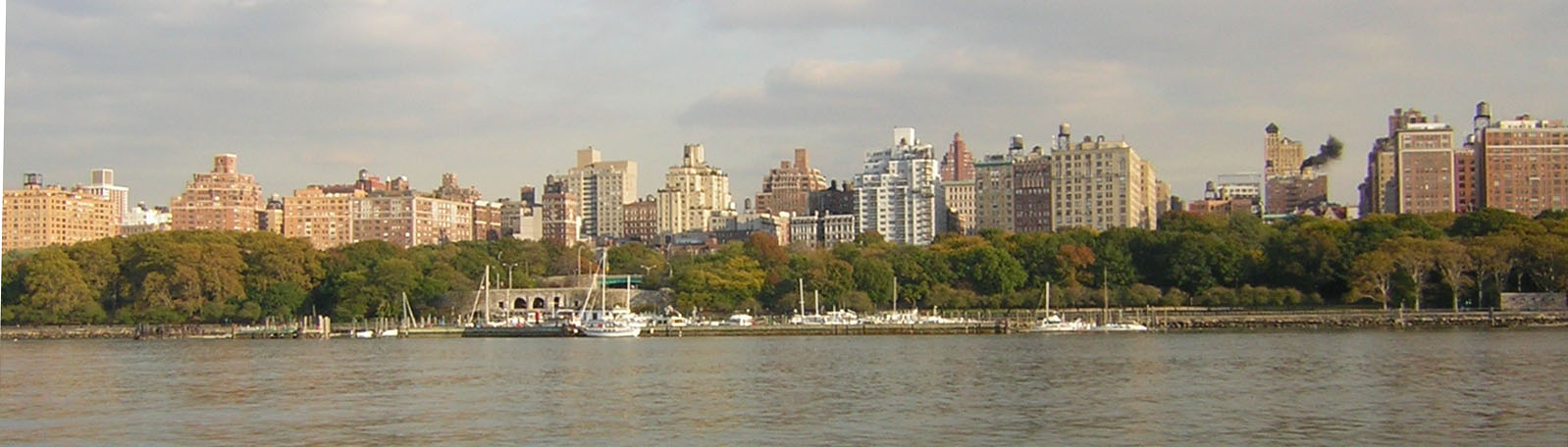 79th Street Boat Basin, on a partly cloudy late afternoon from a Circle Line boat in the middle of the Hudson River